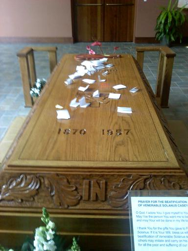 Solanus Casey